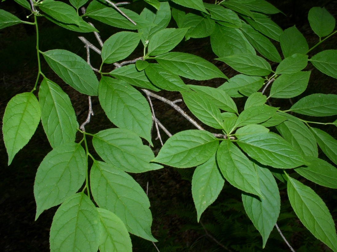 Ilex montana leaves and branches near Blackbird Knob in Dolly Sods Wilderness, West Virginia, USA.